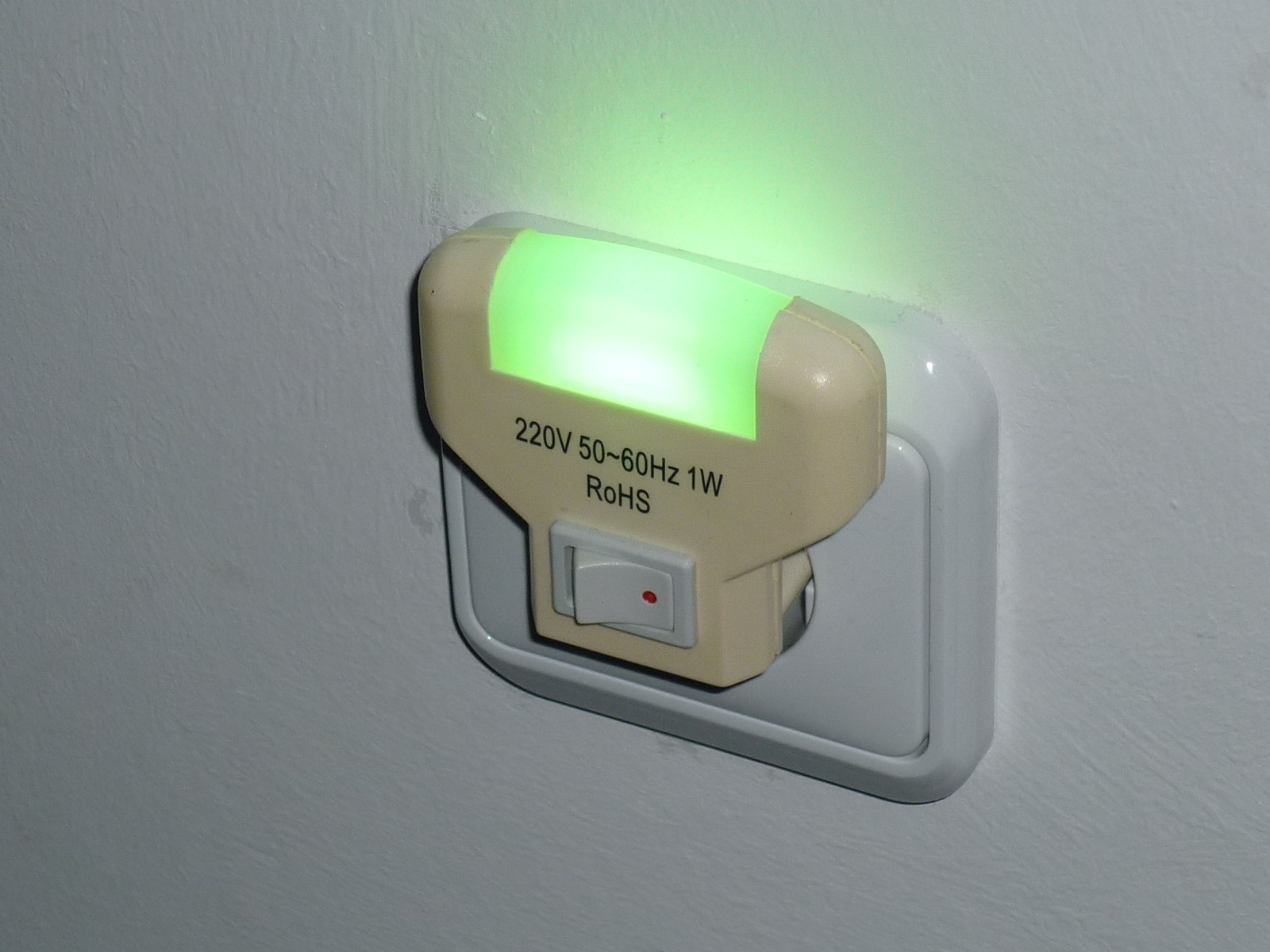 Nightlight, LED-based, 1W, plugged directly into 230V power socket, with manual switch